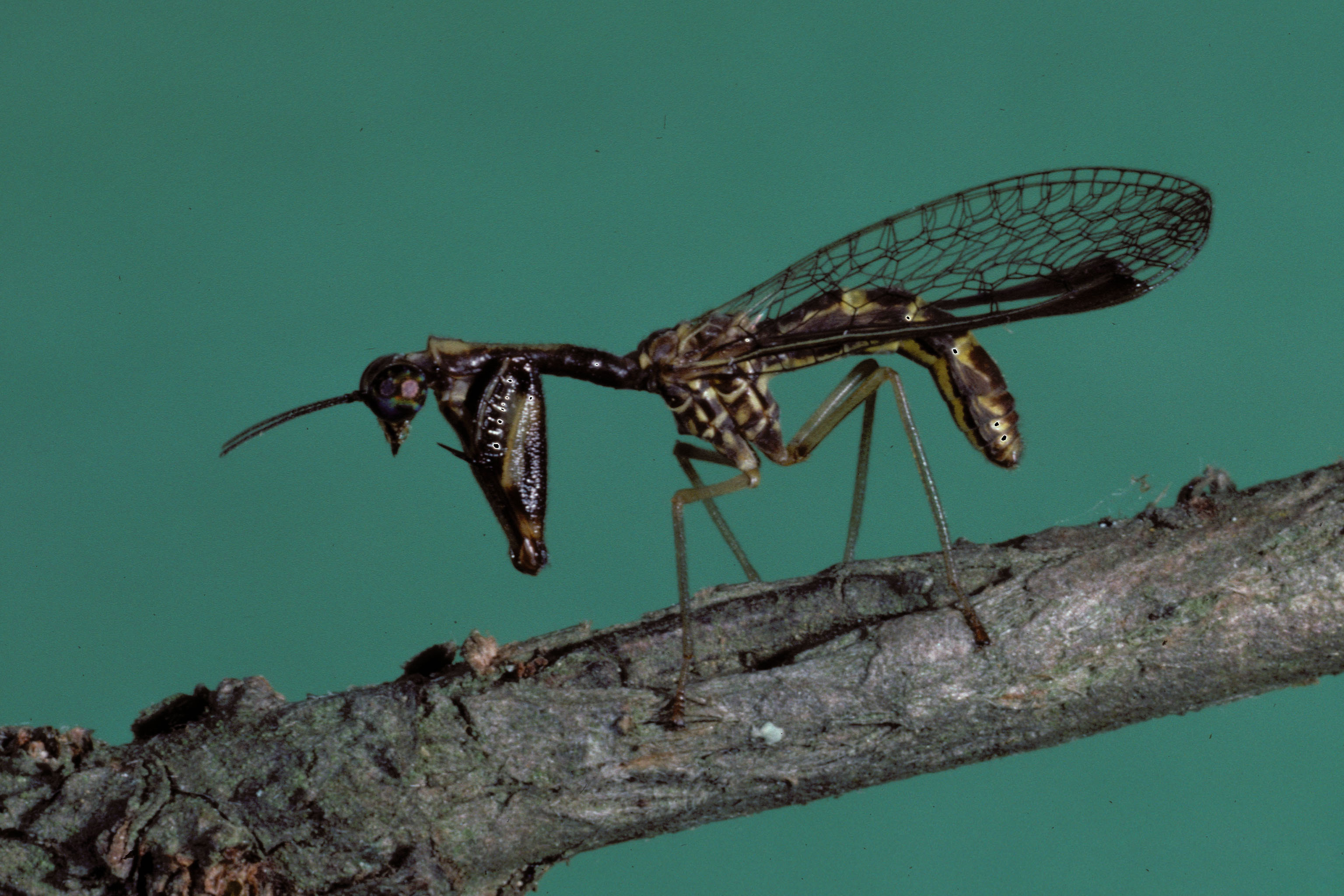 Mantispa spp. Photographer: Gerald J. Lenhard, Louiana State Univ, United States Descriptor: Adult(s) Image taken in: United States